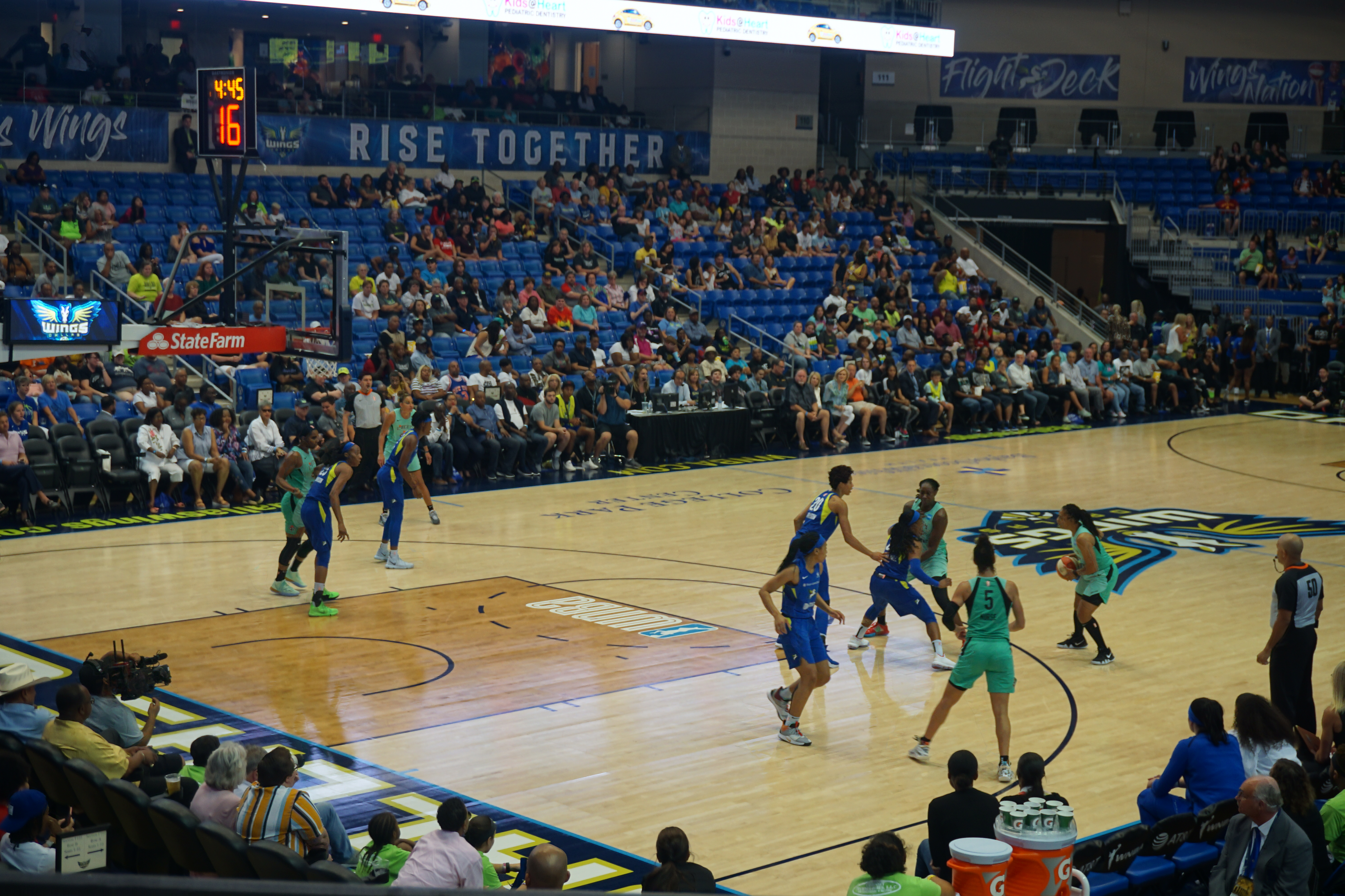 In-game action during the New York Liberty vs. Dallas Wings basketball game at College Park Center in Arlington, Texas (United States). Dallas won 83–77.